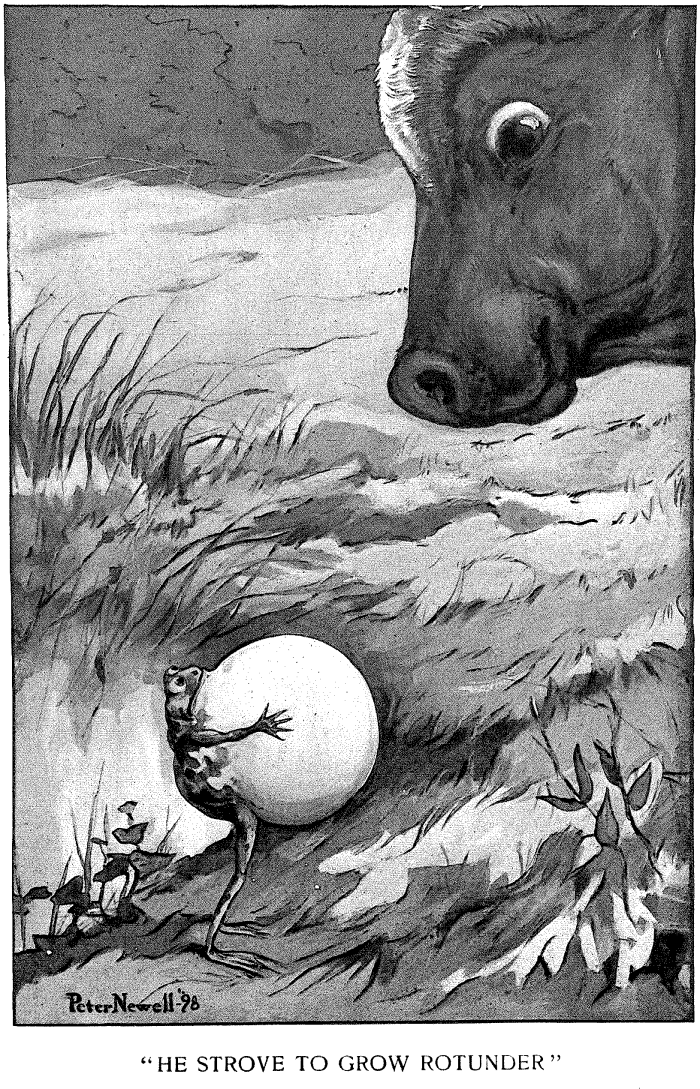 Illustration from Fables for the Frivolous by Guy Wetmore Carryl, with illustrations by Peter Newell. This is an illustration for the poem “The Arrogant Frog and the Superior Bull”. It appeared facing page 22 in the 1898 publication of the poems.